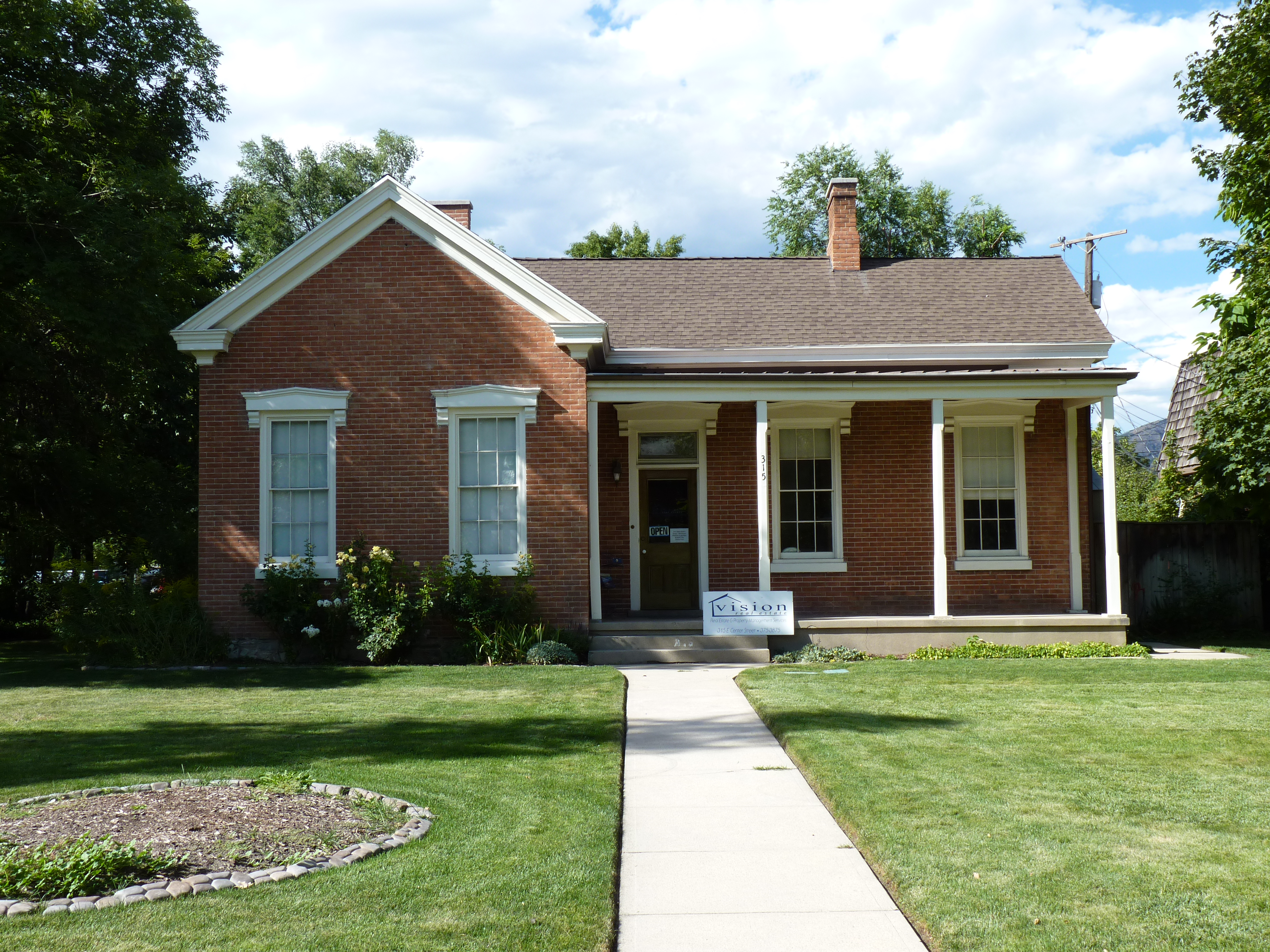 The Hannah Maria Libby Smith House is located at 315 East Center St. in Provo, Utah. It is on both the national register of Historic places, and in the Provo Historic Landmarks Registry. Mrs. Smith, the original owner of the house, was the grandmother of George Albert Smith, a former president of the Church of Jesus Christ of Latter-day Saints.